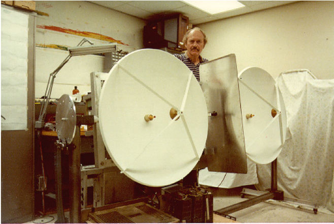 This is an image of the first 94-GHz radar developed in a University by Roger Lhermitte (shown in the photo)